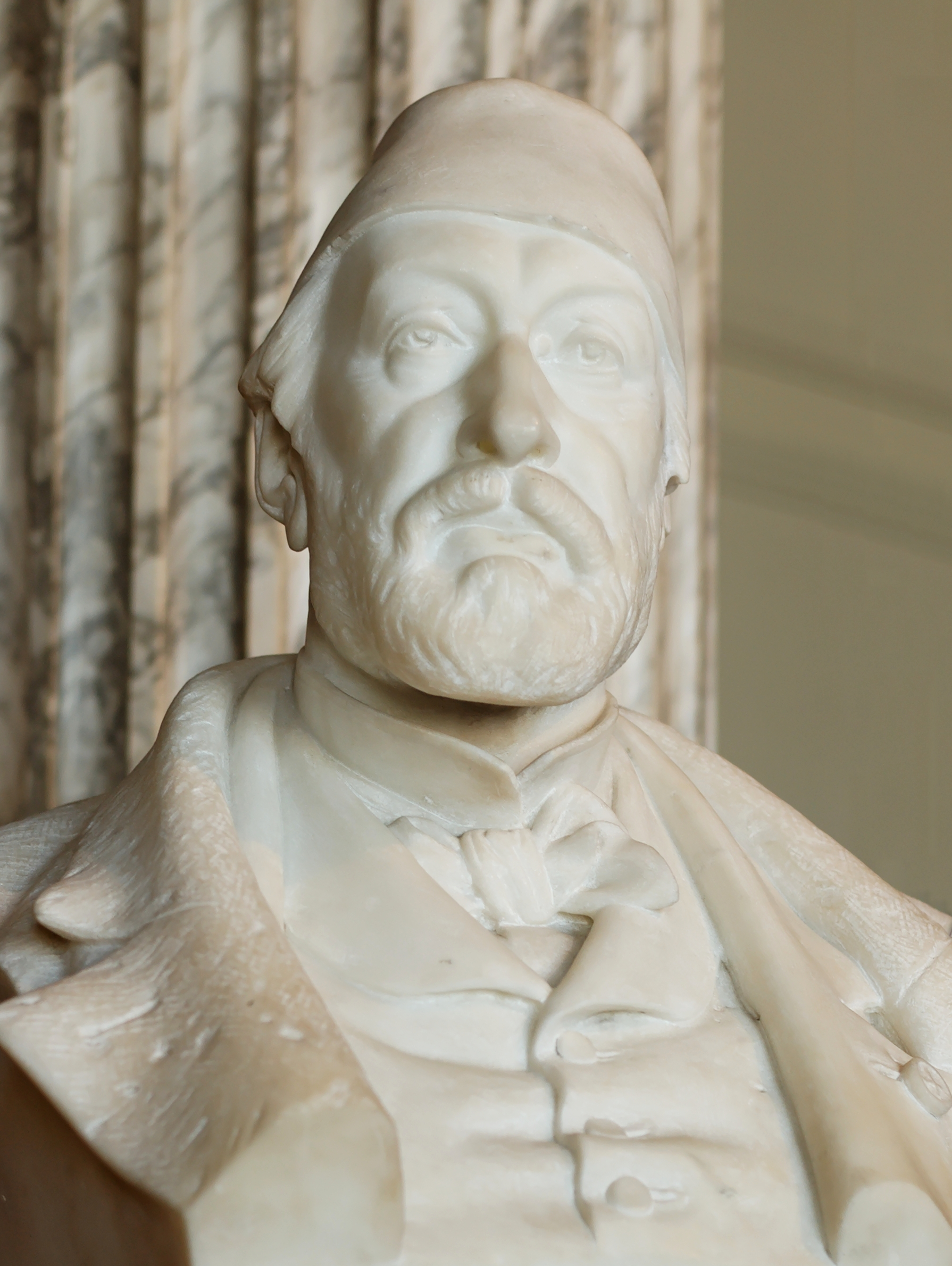 Bust of Auguste Mariette (1821–1881), French archaeologist